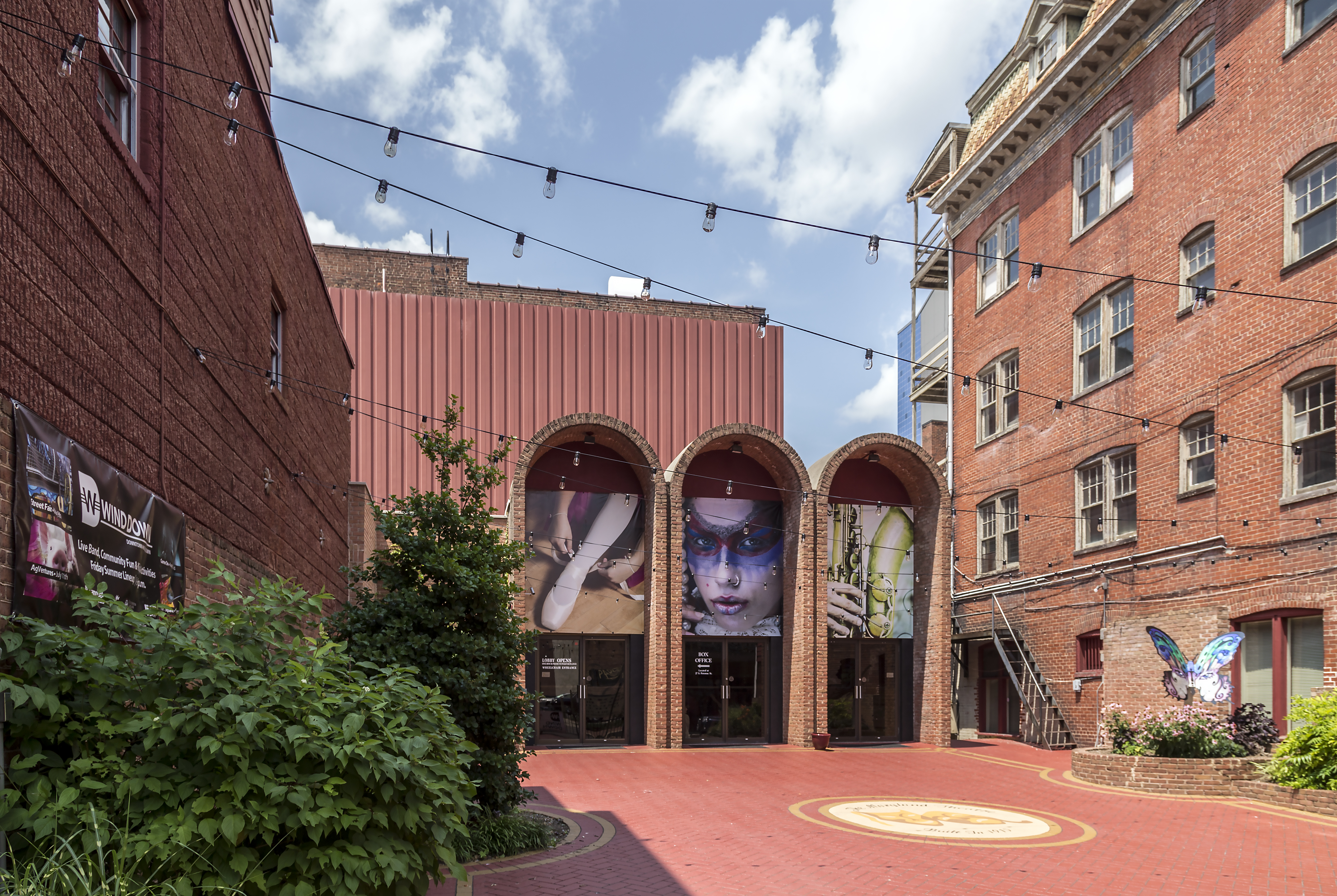 The former entry plaza and entrance of the Maryland Theater, Hagerstown, Maryland. The original lobby and front were destroyed in a fire in the 1970s and the plaza and entrance were built in the place of the original front block of the theater. The main house survived the fire. In 2019 a new building was constructed in the plaza to house the entrance.